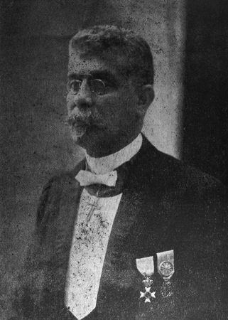 Iakovos Dragatsis (1853-1935): Greek archaeologist